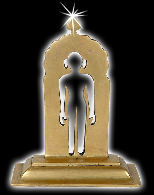 Image of a Siddha Idol